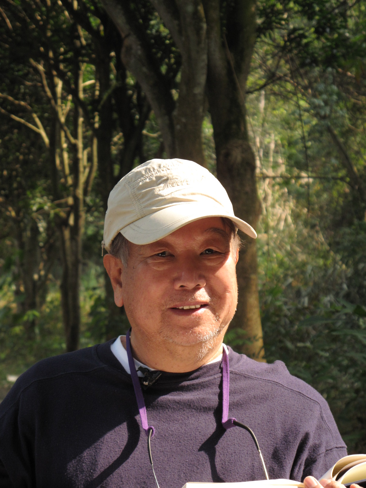 Prof. Pan Wenshi in Chongzuo, Guangxi, China in January 2010.